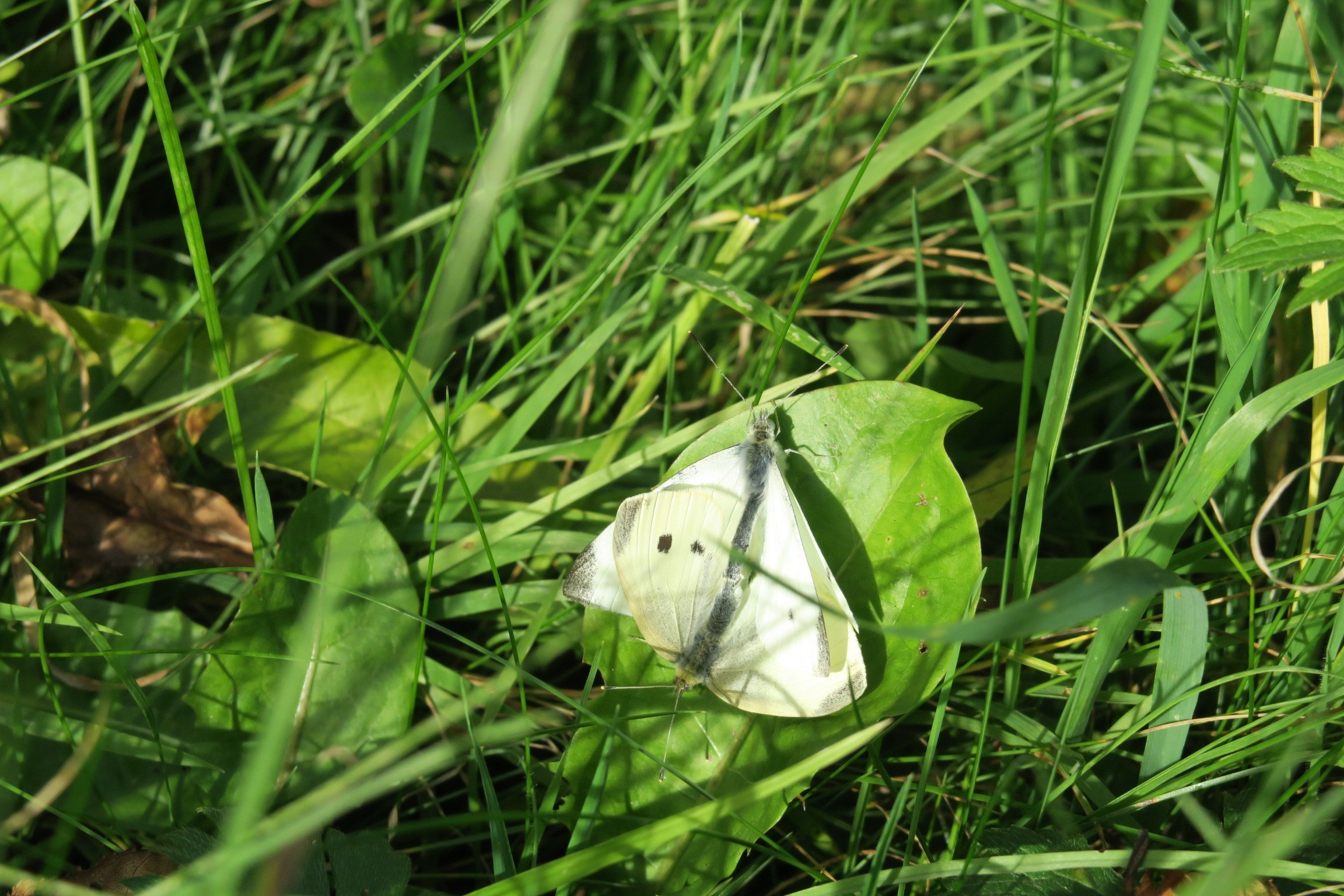 Two small whites mating on a leaf in a forest clearing near Vaals, NL.